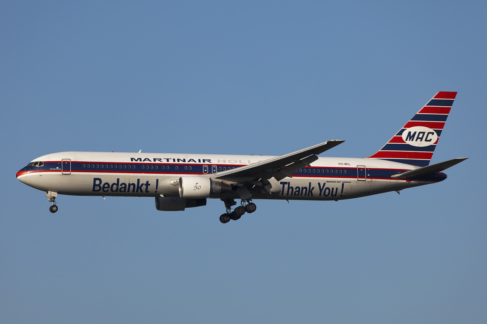 Schiphol